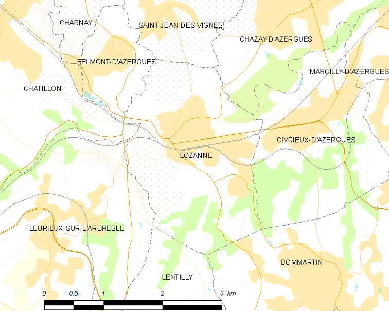 Map of French municipality